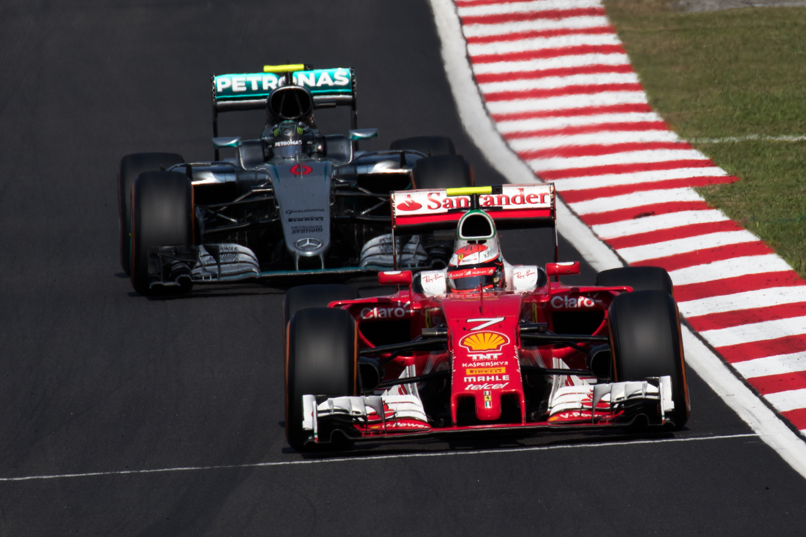 Formula One 2016 Rd.16 Malaysian GP: Kimi Räikkönen (Ferrari) and Nico Rosberg (Mercedes)